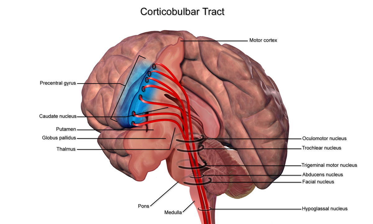 Corticobulbular Tract. Animation in the reference.[1]